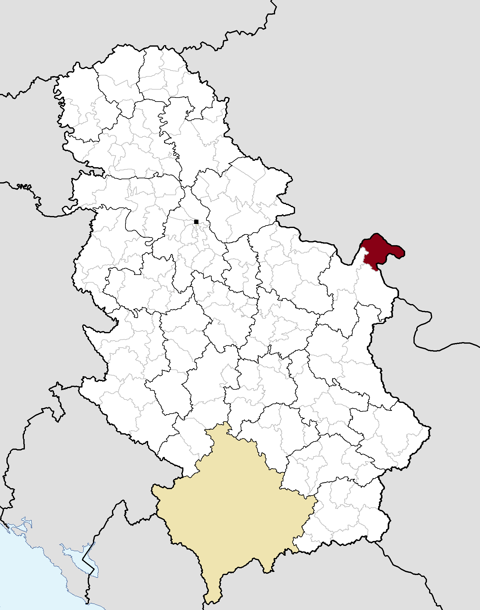 Municipal location in Serbia